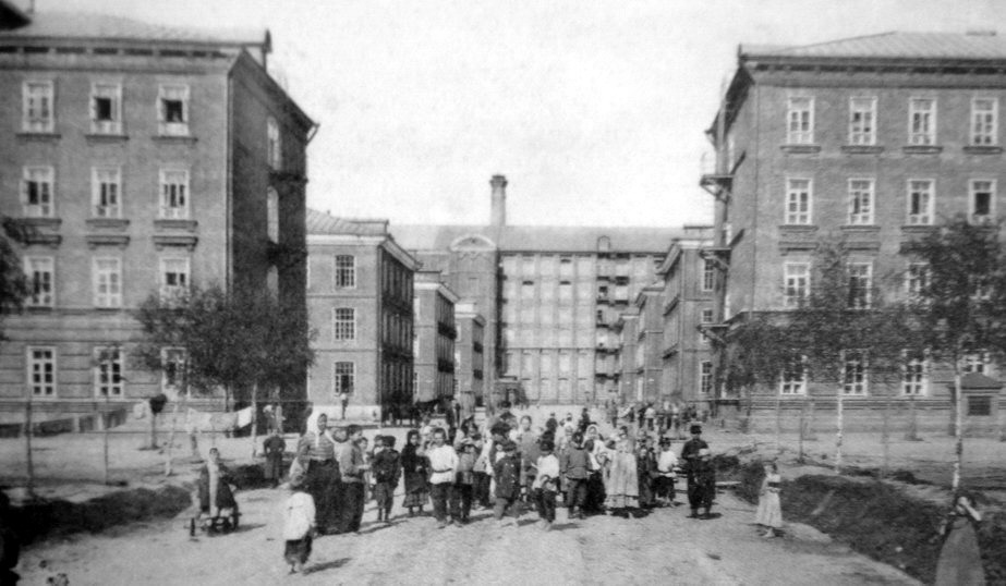 Living quarters for workers of the Yaroslavl Major Manufactory. 1910s